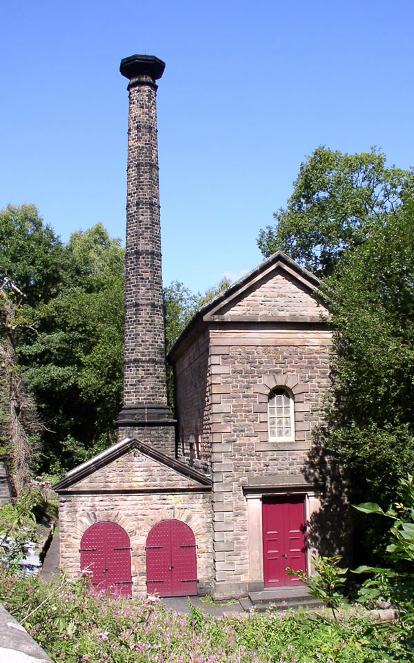 Leawood pumping station on the Cromford Canal